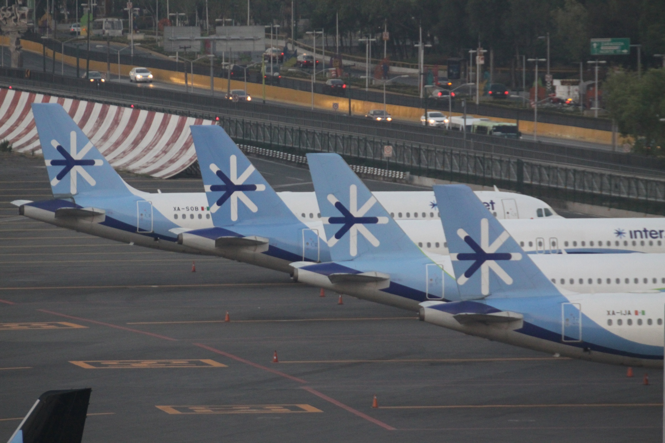 At Mexico City International Airport